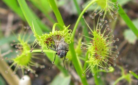 Droseraceae peltata caught a fly at Naruto-Togane carnivorous plant colony